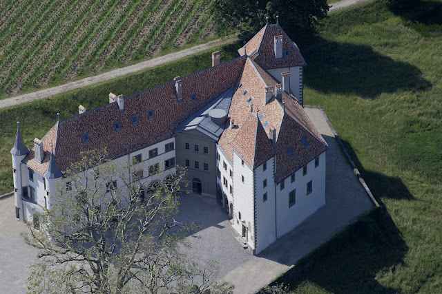 chateau 2012